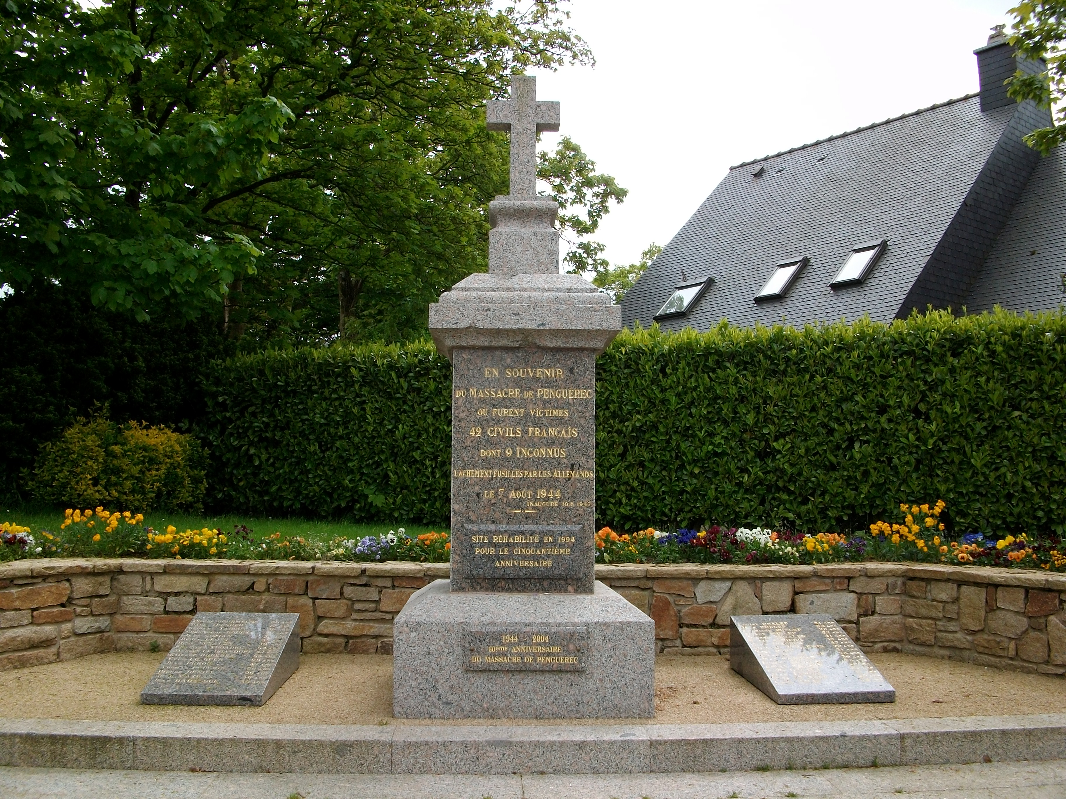 This is a photo of the monument that commemorates the Penguerec slaughter. 42 French men, women and children were killed by sailors of the 3rd Marineflakbrigade on the 7th of August 1944 in Gouesnou, next to Brest (France)